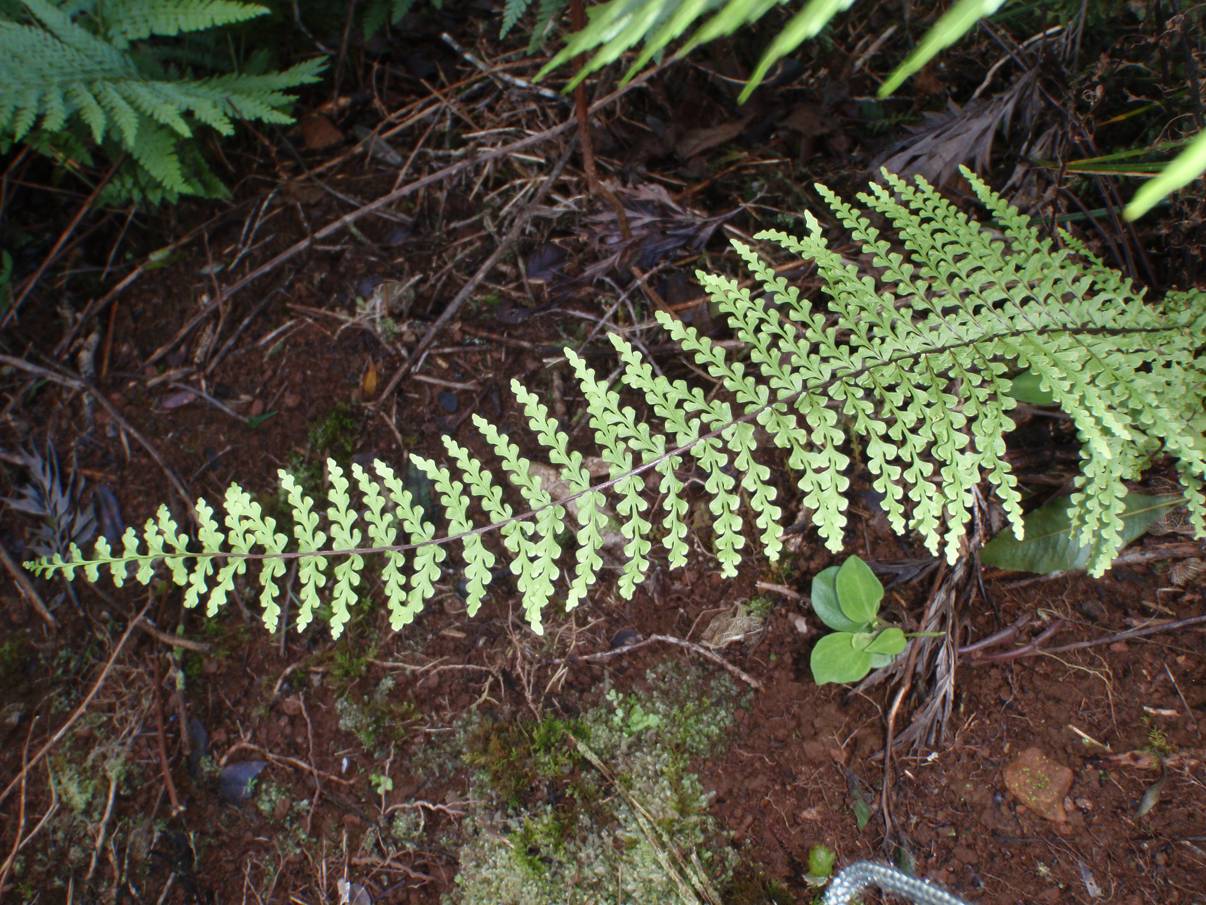 Facing threats from habitat loss and degradation, the U.S. Fish and Wildlife Service has proposed to add 49 species from Hawaii to the Endangered Species Act. . Photo by Michelle Clark USFWS